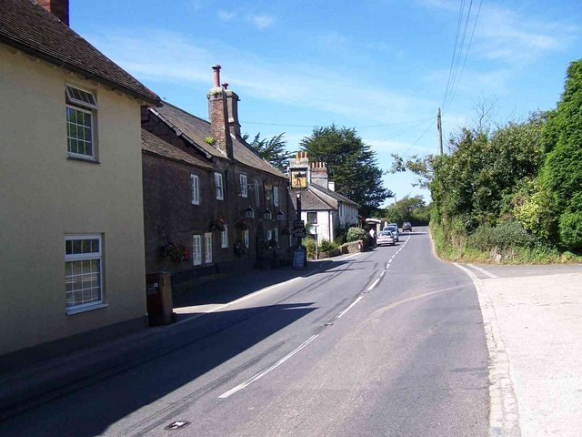 A381 Through Churchstow